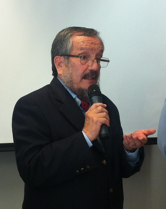 GRUPO SURA Conference, a multinational with its commitment to support and cultural diffusion.